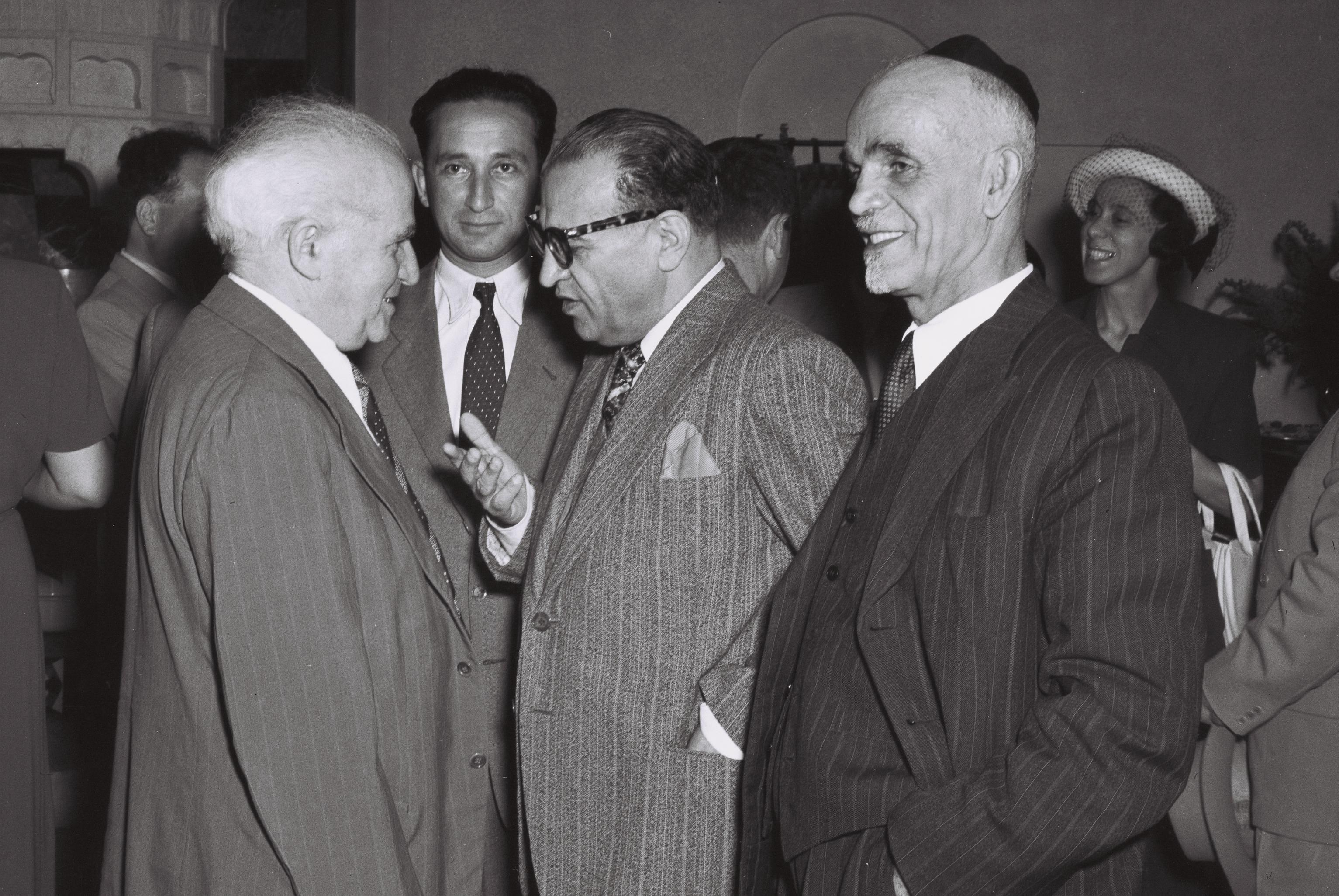 Mr. Saffinia chats with the p.m. David Ben-Gurion and mr. s. Divon acting director of the middle east division of foreign office at a party given to the govt. by Iranian.